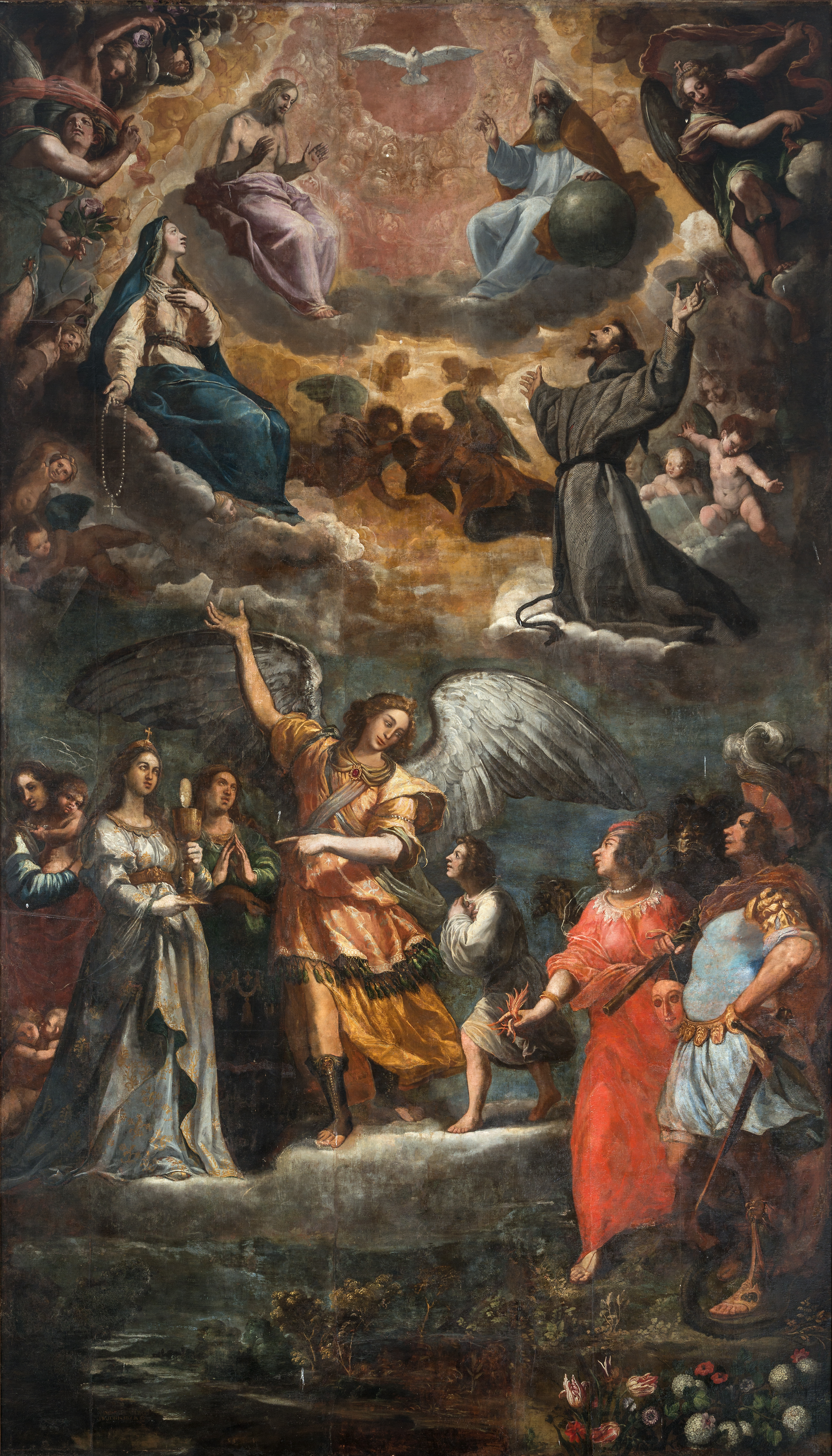 Alegoría del Sánto Ángel Custodio por Vicente Carducho. Óleo sobre lienzo. Se conserva en la ermita del Cigarral del Santo Ángel Custodio en Toledo. Fotografía de David Blázquez.